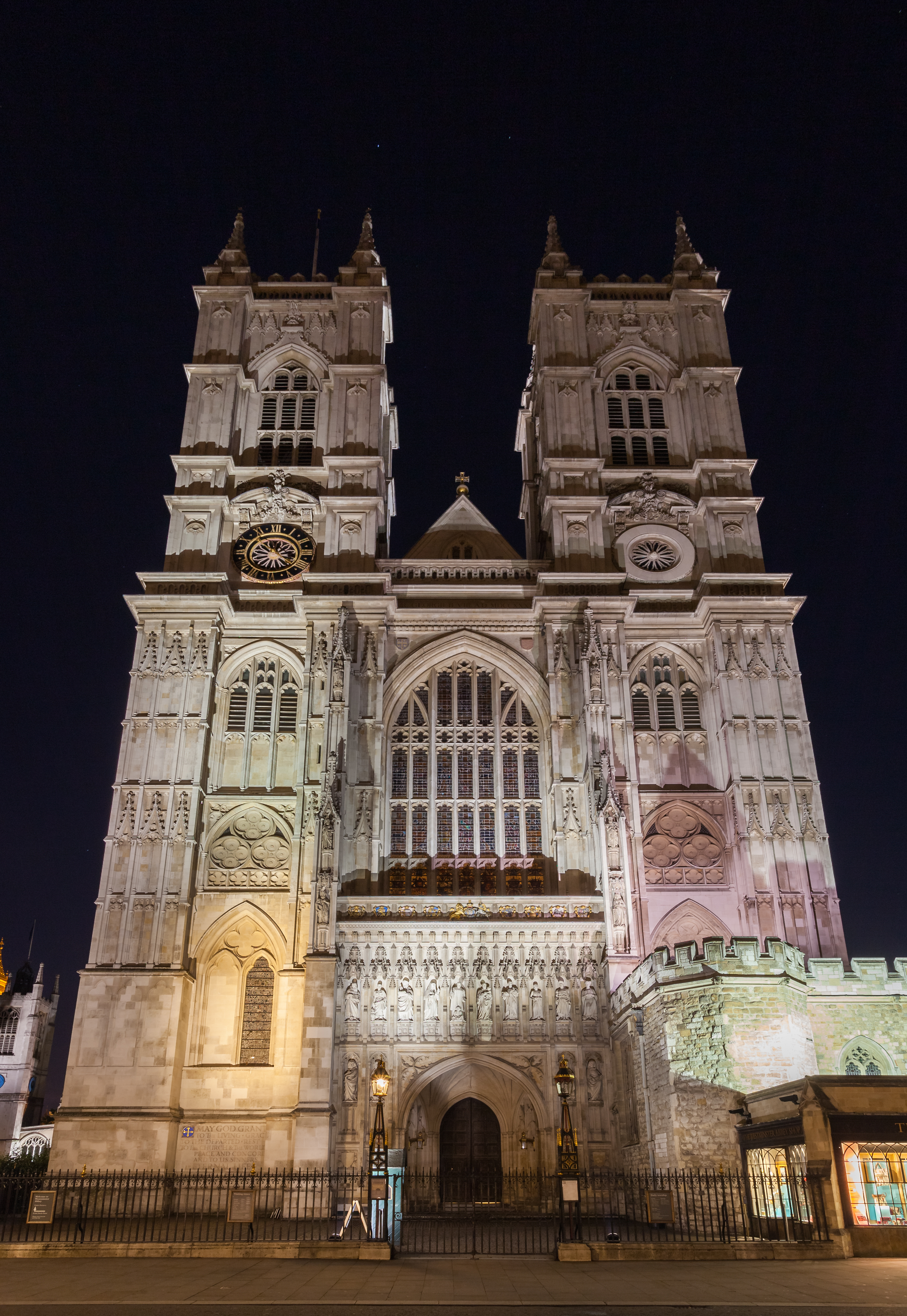 Westminster Abbey, London, England